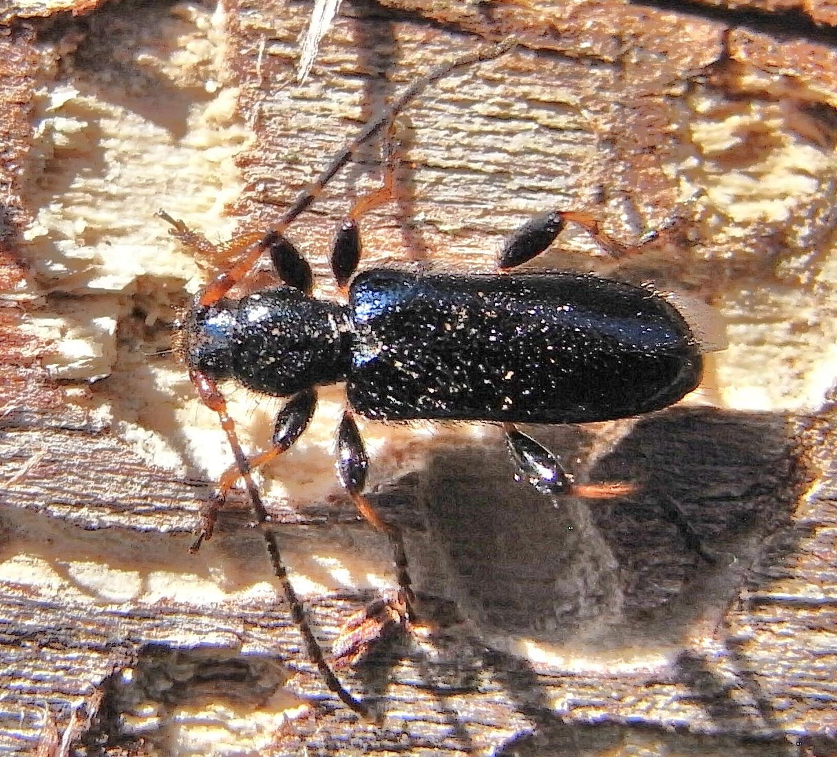 Phymatodes rufipes on dead appletree from Westhungary near Lenti, 2010-04-29, hairs with boredust